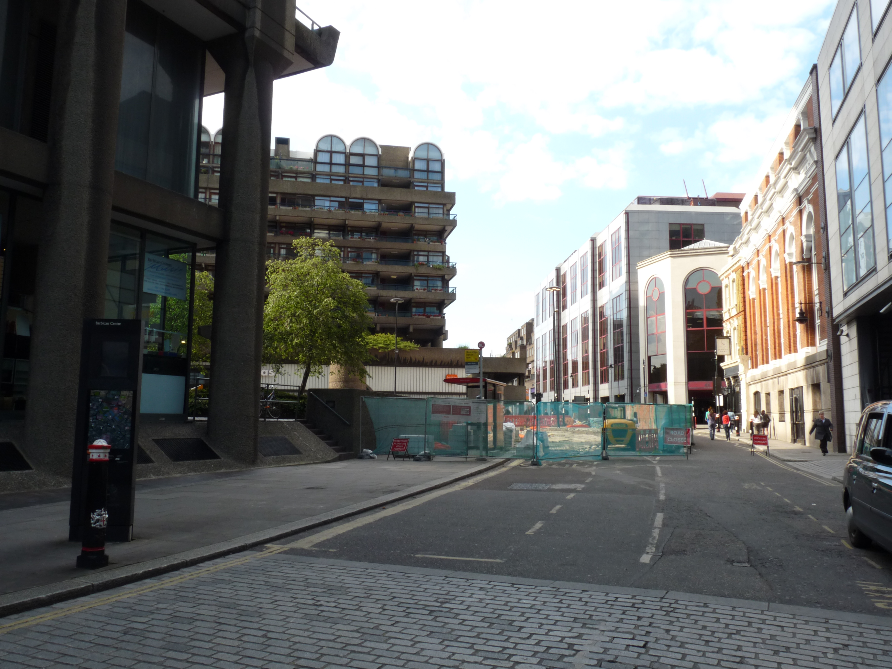 Illustration of the walking routes to Wikimania 2014, this image shows the route between the Barbican Centre and the Thistle City Barbican or Barbican tube station. This is the view from outside the Barbican Centre looking north to the junction with Beech Street